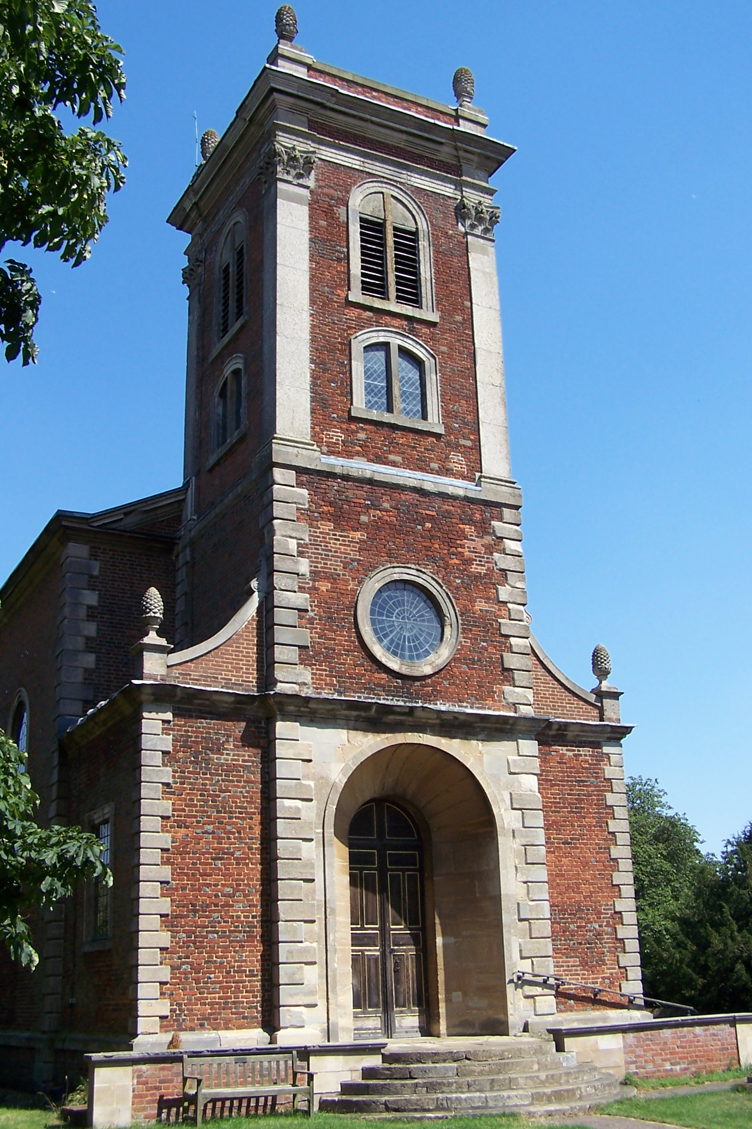 St Mary Magdalene's parish church, Willen, Milton Keynes, seen from the west